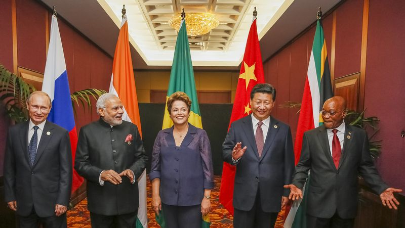 BRICS heads of state and government ahead of the 2014 G-20 summit in Brisbane, Australia